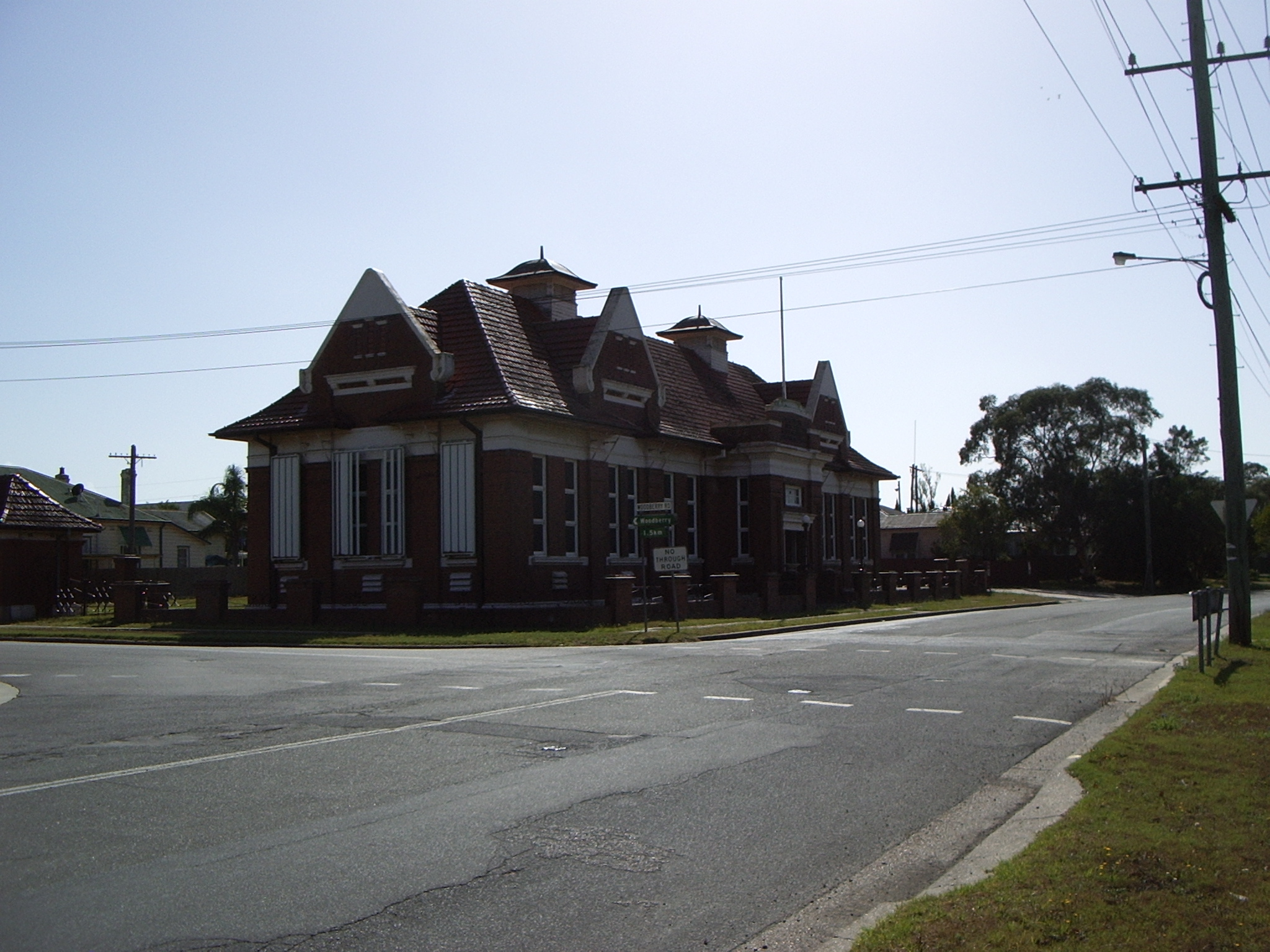 Water Pumping Station, Tarro 2322, NSW, Australia